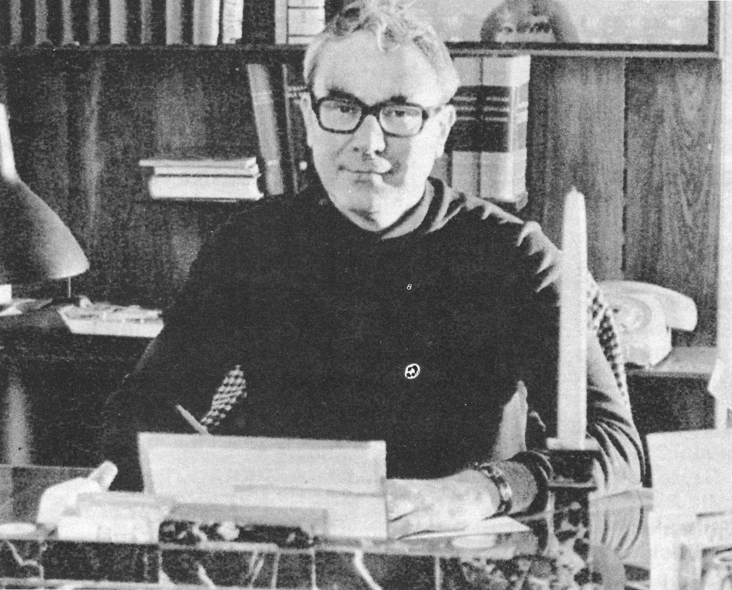 Birger Elmér, chief of the Swedish secret intelligence agency IB.